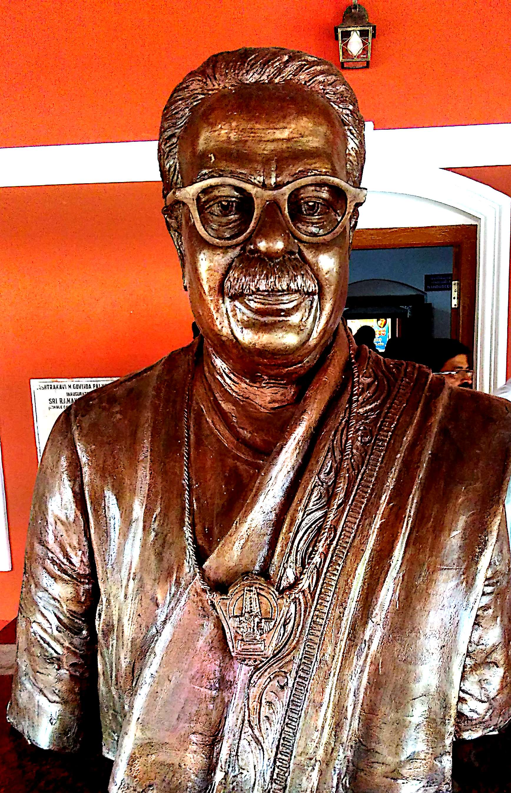 Govinda Pai Statue at Manjeshwara, Kasaragod District, Keral State, India.